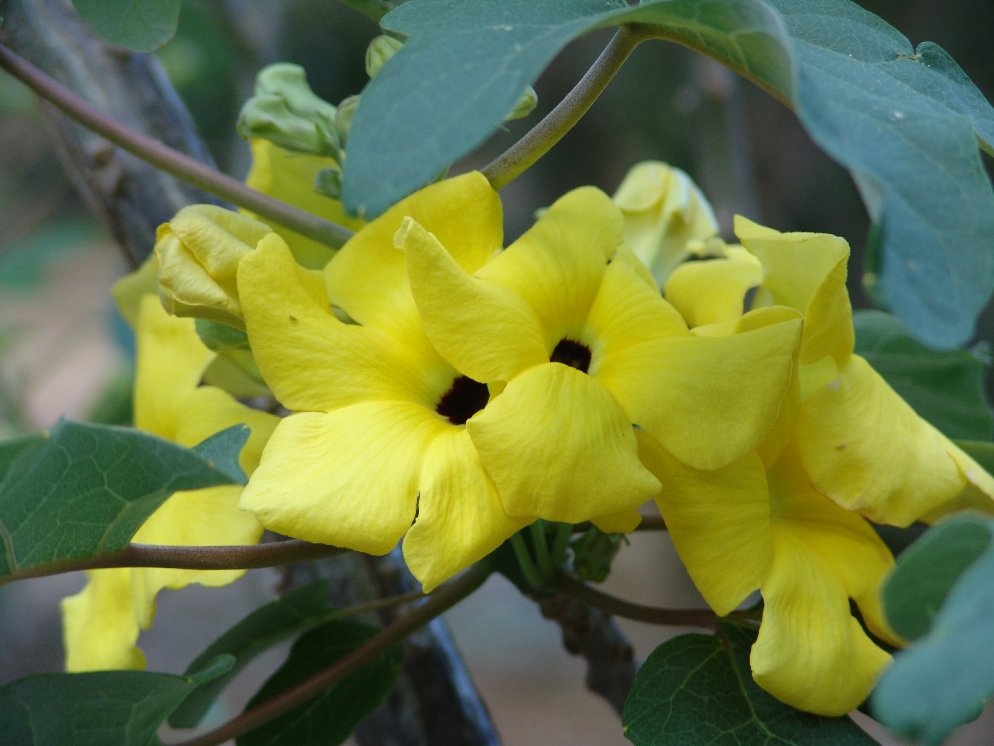 At Koko Crater Botanical Garden, Oahu, Hawaii